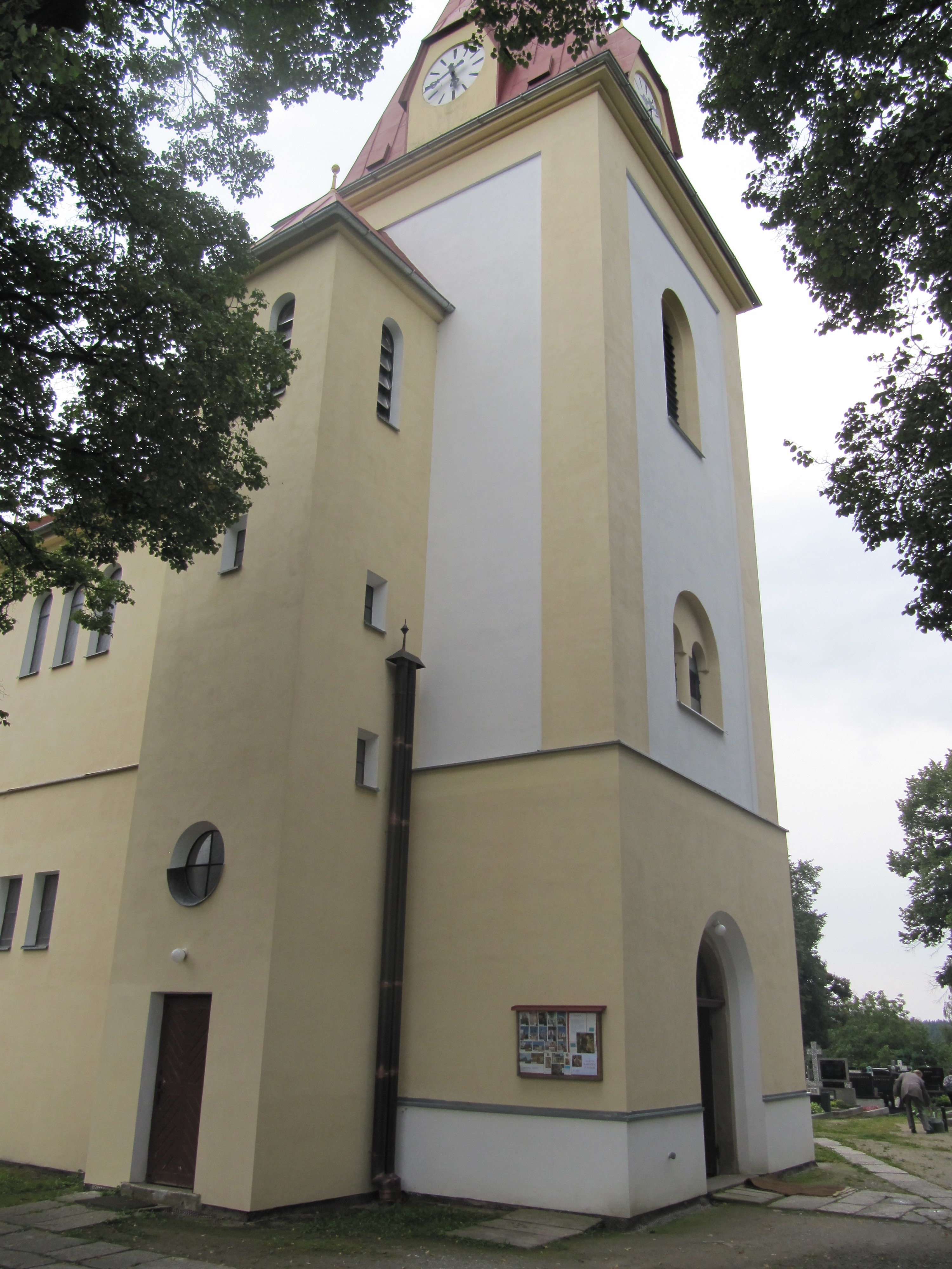 Vysoké Popovice in Brno-Country District, Czech Republic.John the Baptist-church.